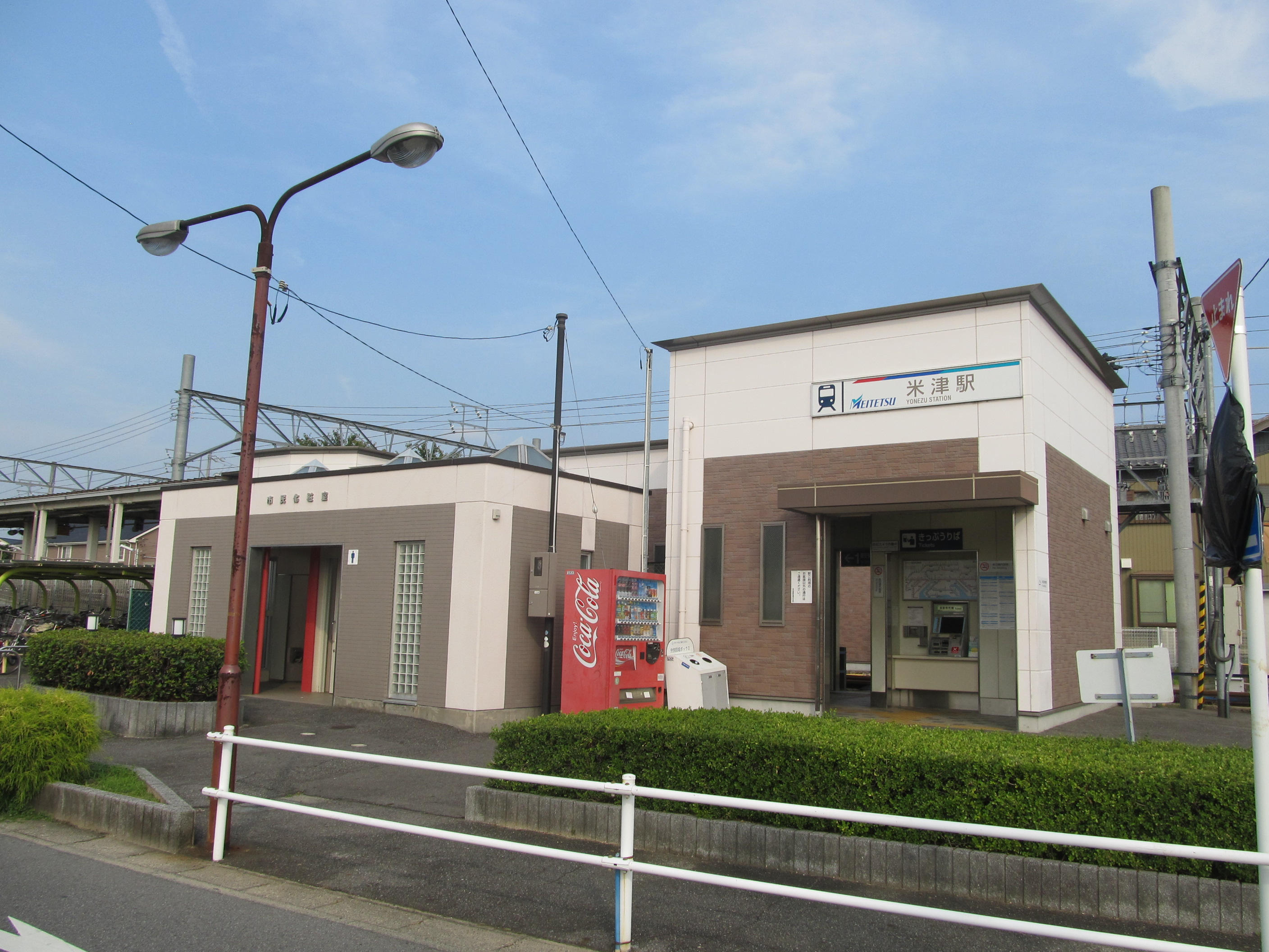 Nagoya Railroad Nishio Line Yonezu Station Building (for Shin Anjō).